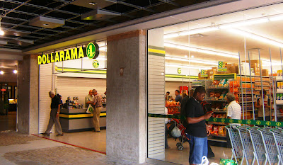 Situated in the entrance of the Complex, Crossways.